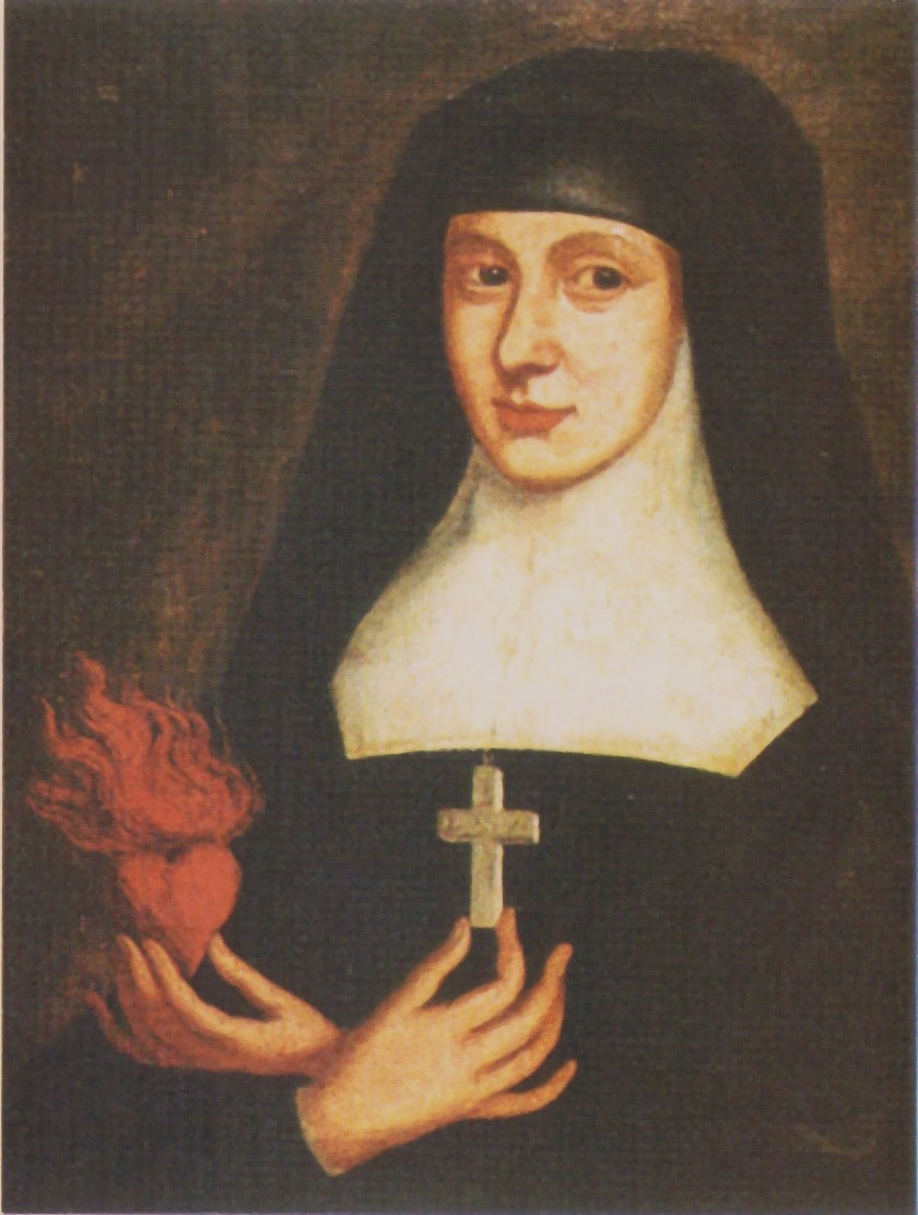 Sister Anne-Madeleine Remuzat (fr. Remusat) (1696 – 1730) from Marseille. Sign of Sacred Heart' booster.